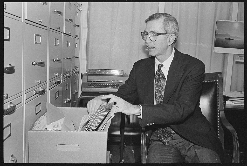 U.S. Representative Donald J. Pease of Ohio going through files in his office, before he retires.